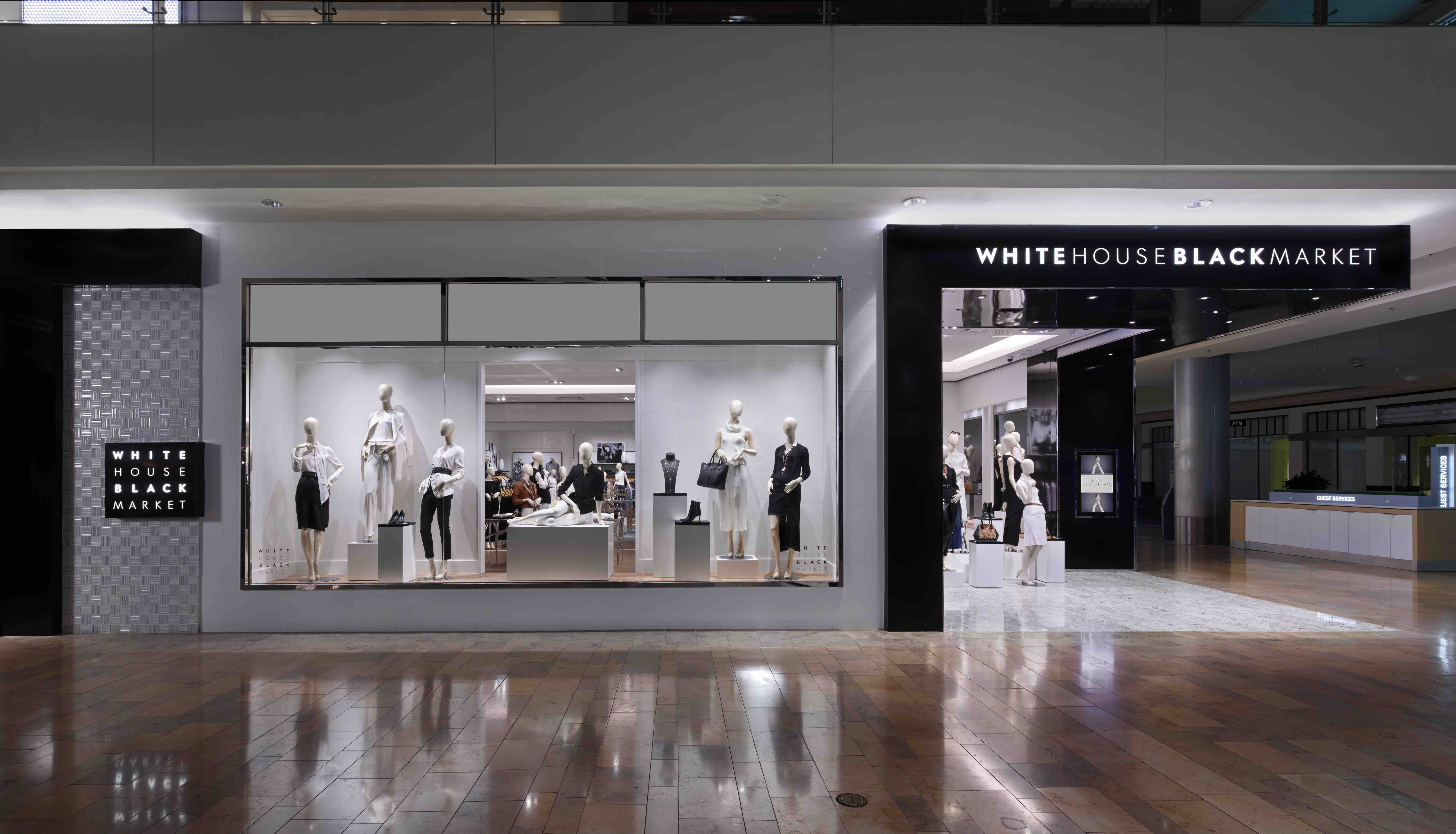 White House Black Market, Green Oak Village Place